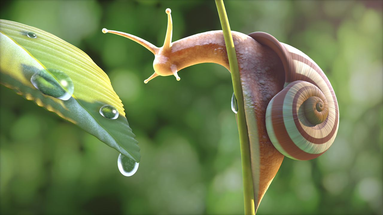 Procedural image (procedural modeling, shading, lighting) rendered in realtime in Shadertoy with distance fields.